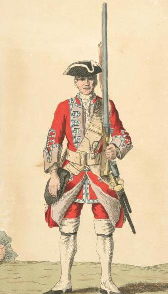 Soldier of the 48th regiment (1742)